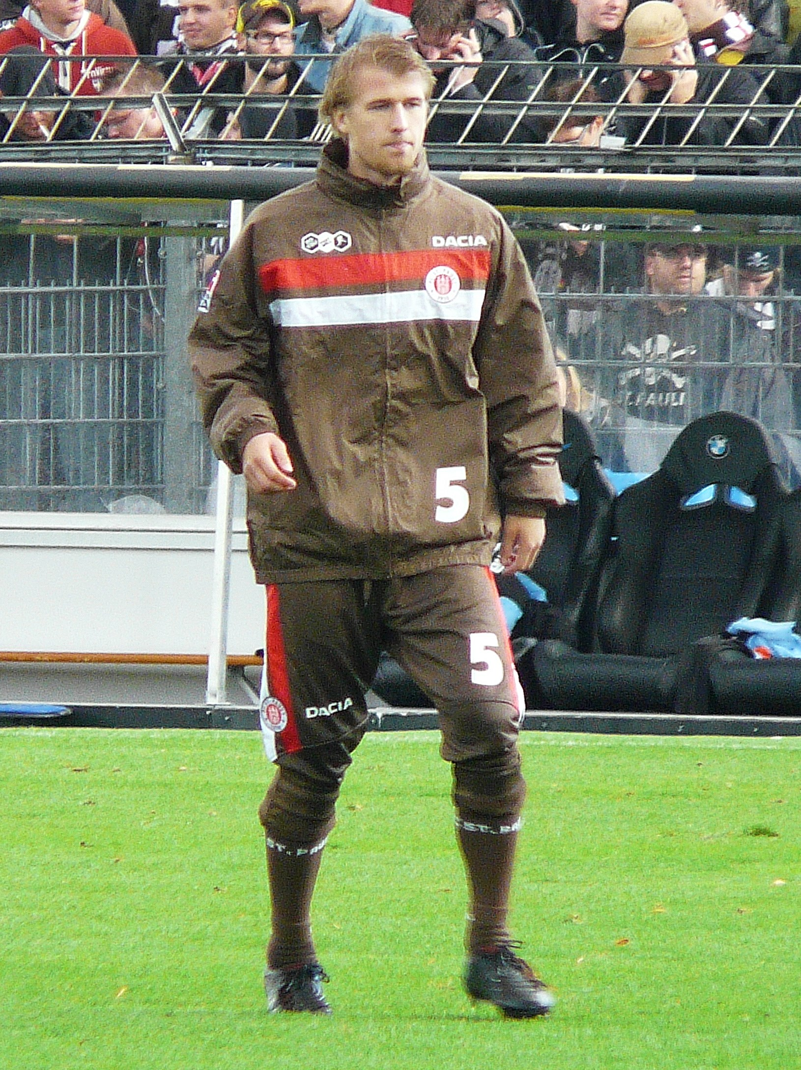 Jonathan Beaulieu Bourgault as Player from FC St. Pauli Saison 2009/10